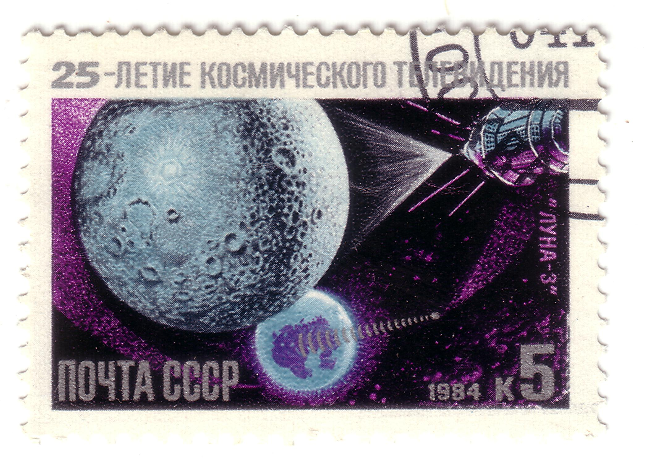 Stamp of the Soviet Union, 1984. Soviet space probe Luna 3.